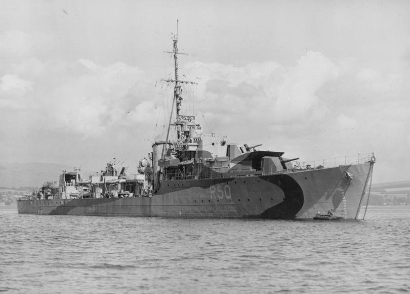 Photograph of British destroyer HMS Venus.